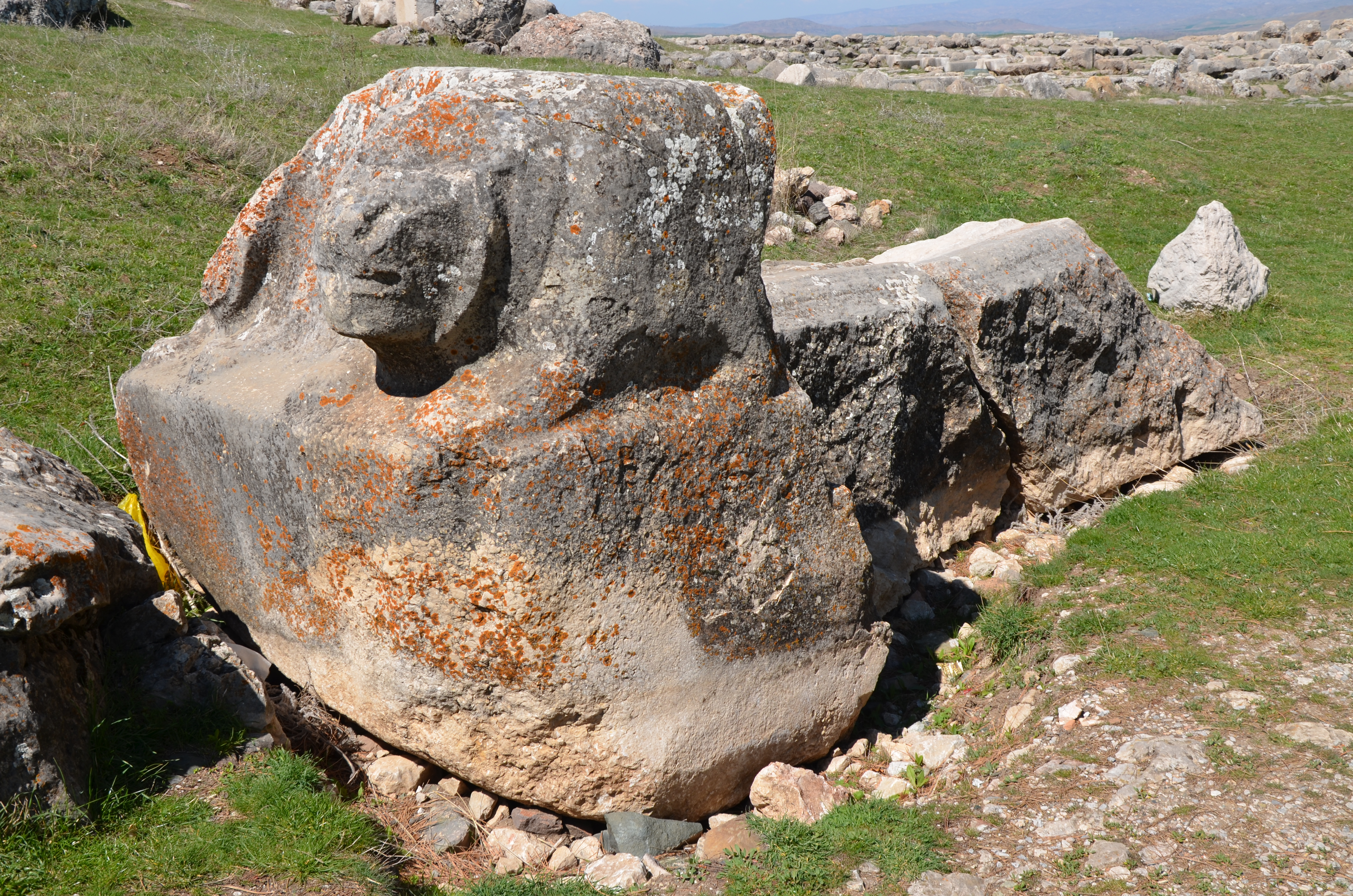 The Lion Basin which was originally 5.5m long, it once feature crouching lions at all four corners, it probably had a role in cult rituals, Hattusa, capital of the Hittite Empire